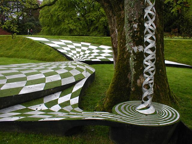 Black Hole. Garden of Cosmic Speculation. Dumfries & Galloway. (locations ?)